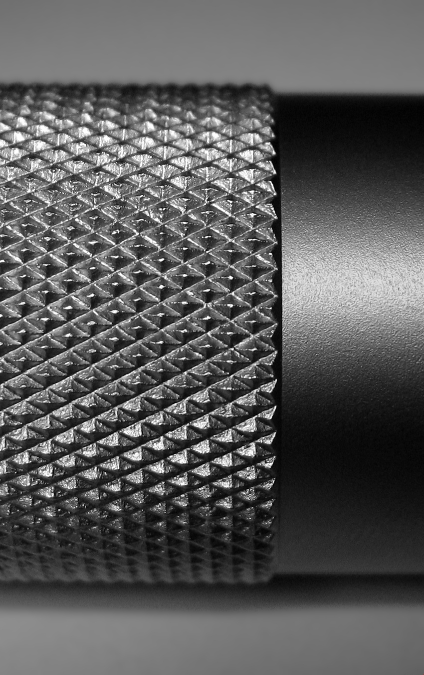 Close-up shot of a diamond-pattern knurling on a cylindric work piece. Knurling method: left/right with tips raised (DIN 82 name: RGE), spiral angle: 30°, pitch: 1 mm, profile angle: 90°. Object's diameter: 24 mm, material: aluminium (silver anodised).